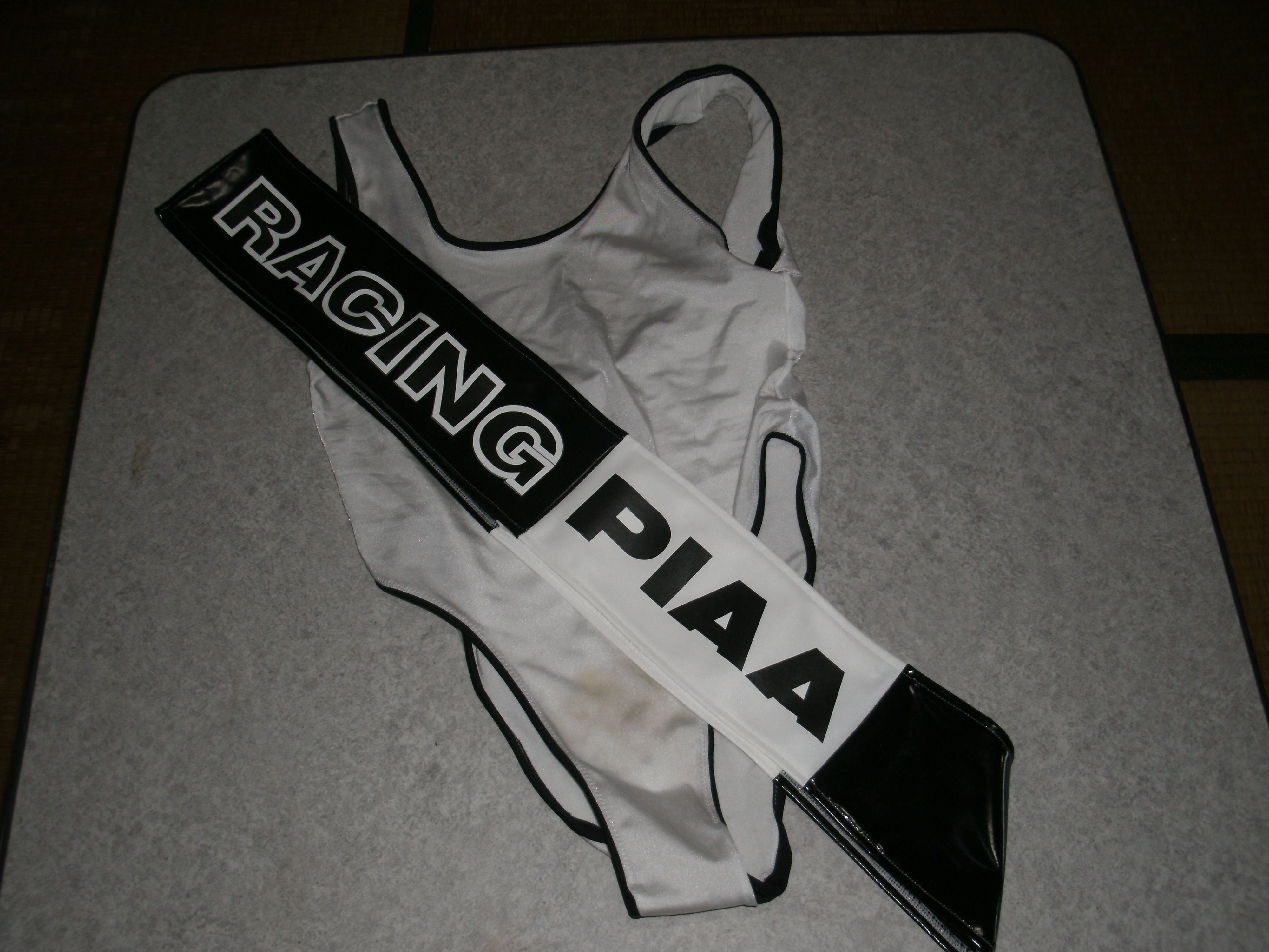 PIAA Race Queen